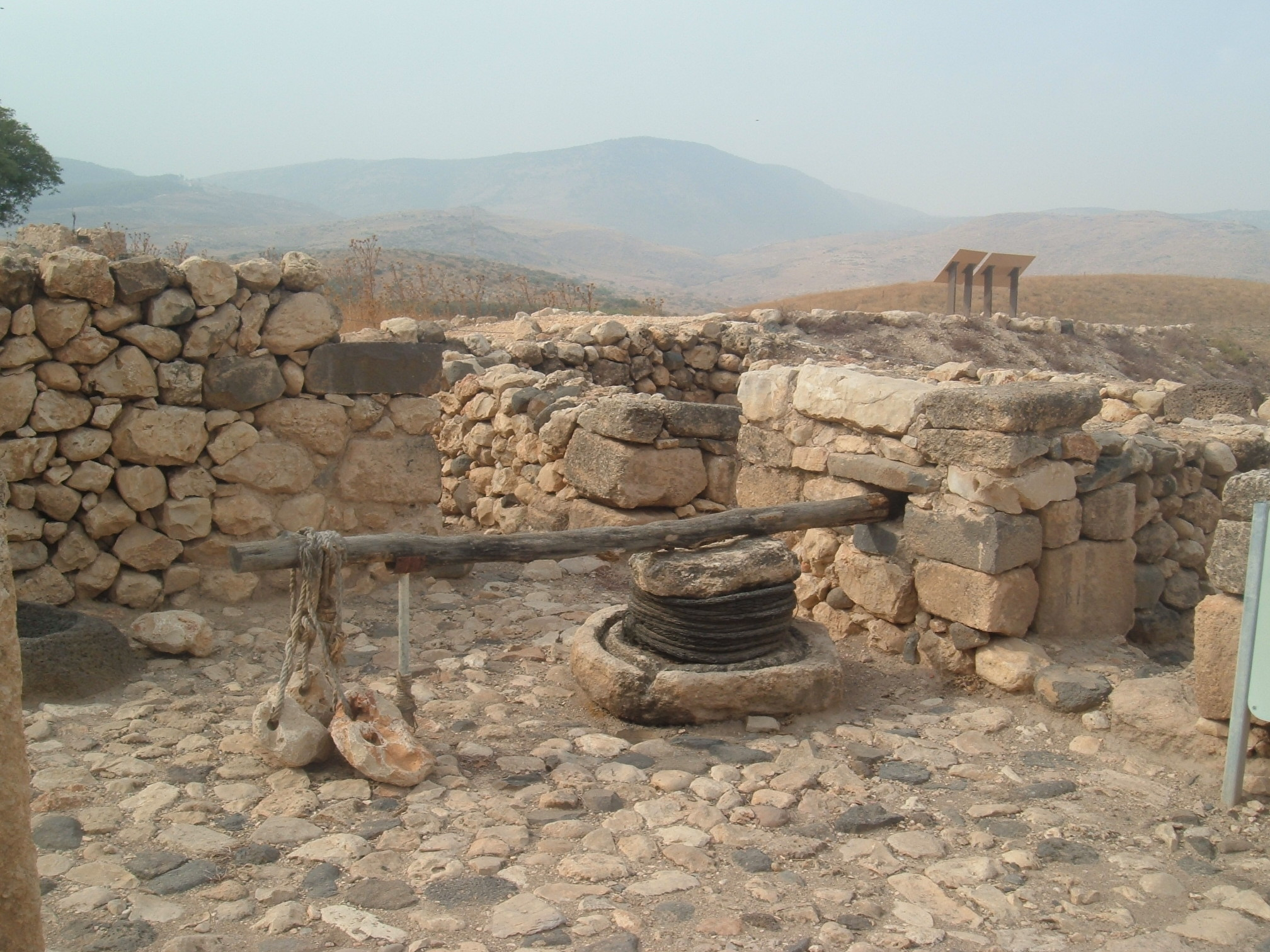 ancient oil press in Tel-Hatzor, Israel